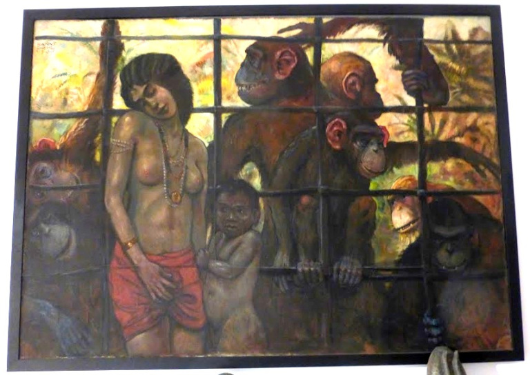 Oil painting on hessian of a woman in front of caged gorillas